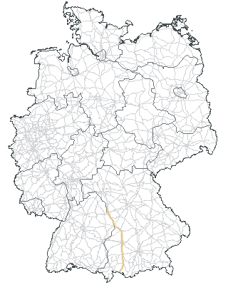 map of Germany with motorway route A91